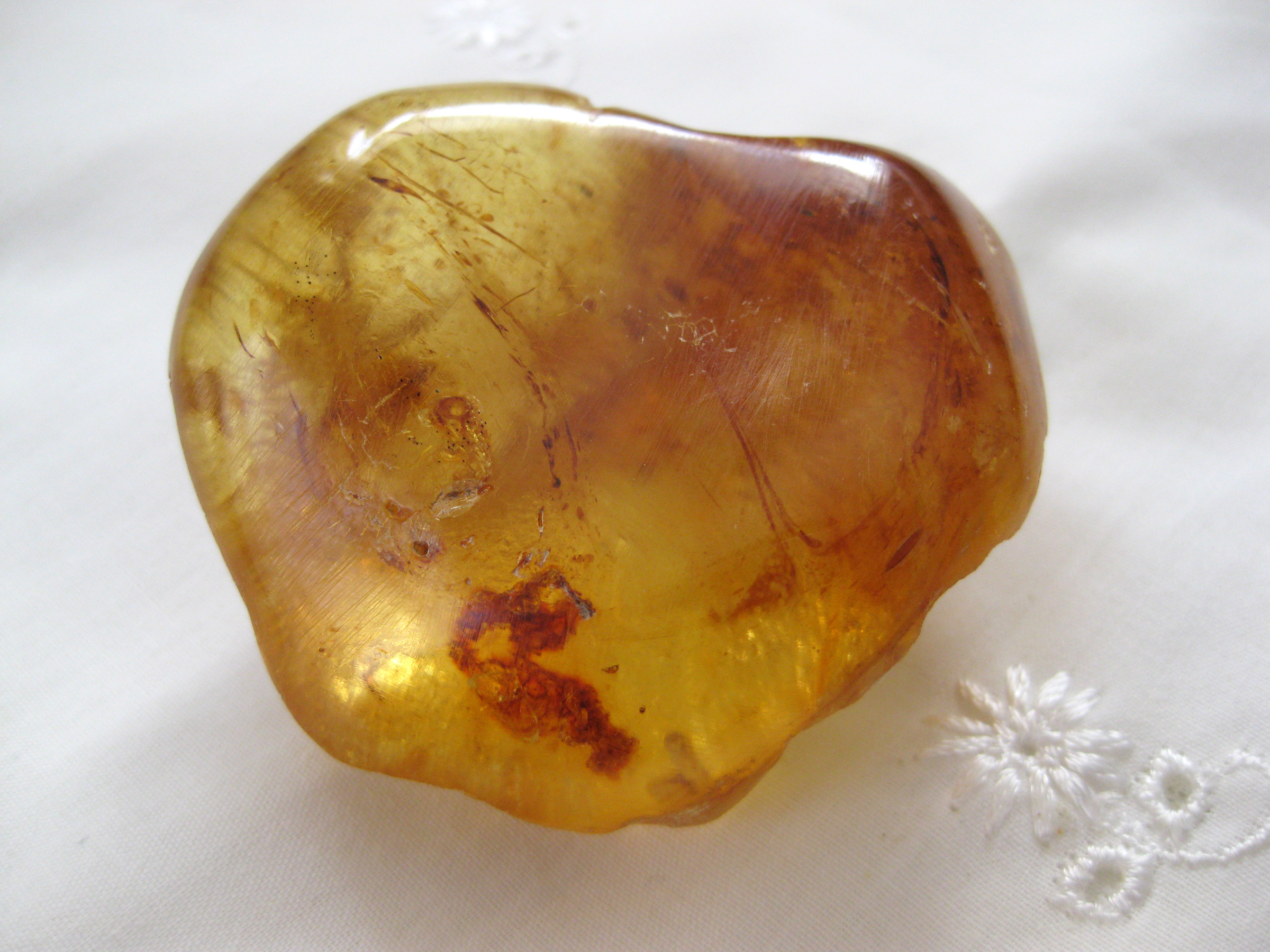 "Kauri gum" of Agathis australis, bought from Kauri Museum, New Zealand.